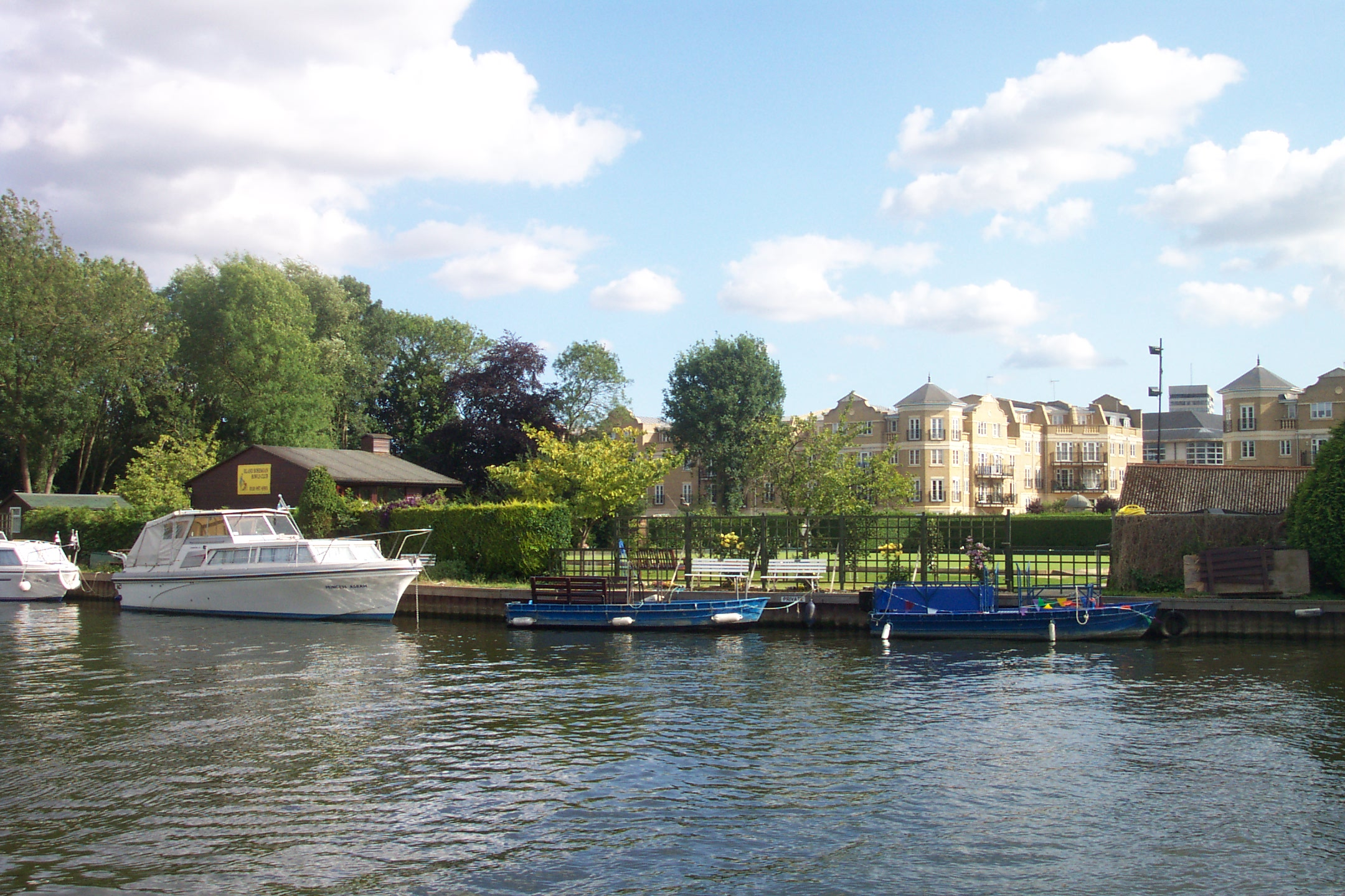 The bowling green on Fry's Island, in the River Thames in the English town of Reading. Photograph taken from the north bank of the river. For more information see the Wikipedia article Fry's Island'.